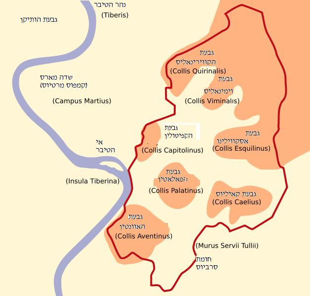 Translation to Hebrew of Image:Seven Hills of Rome.svg